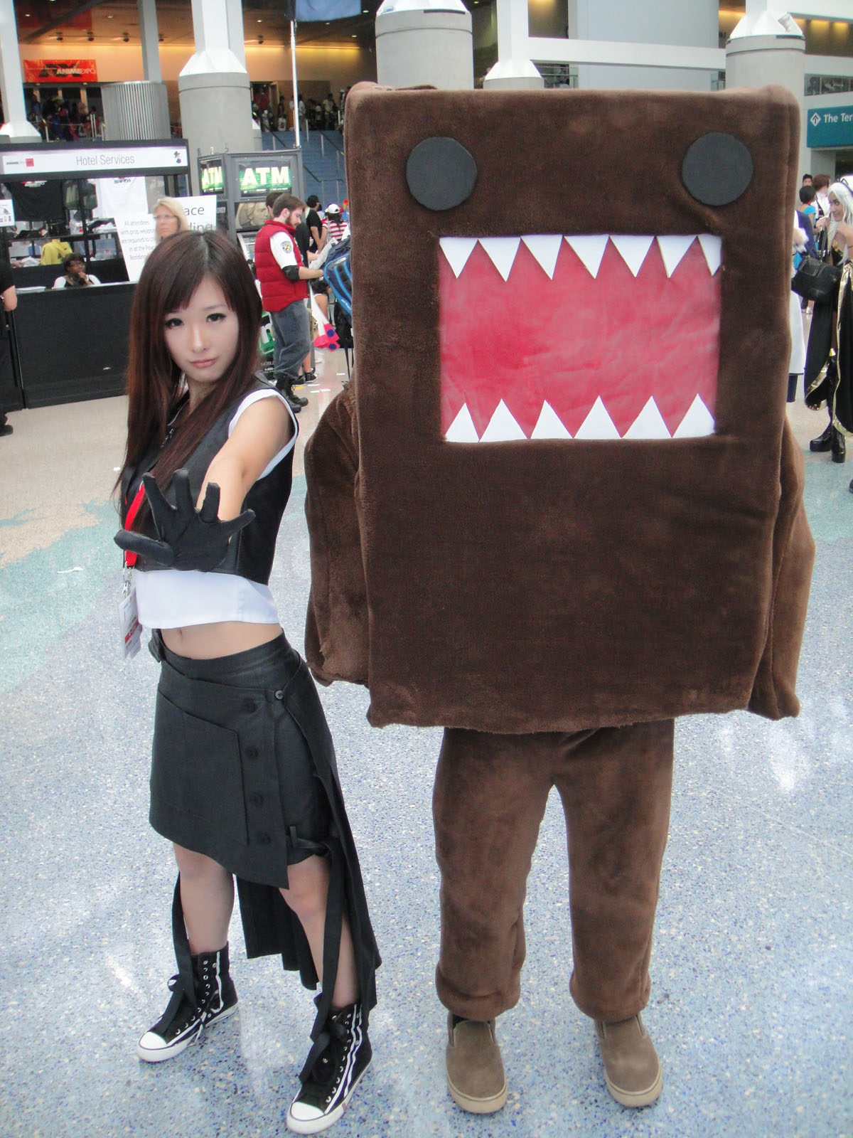 Domo and friend at Anime Expo 2011